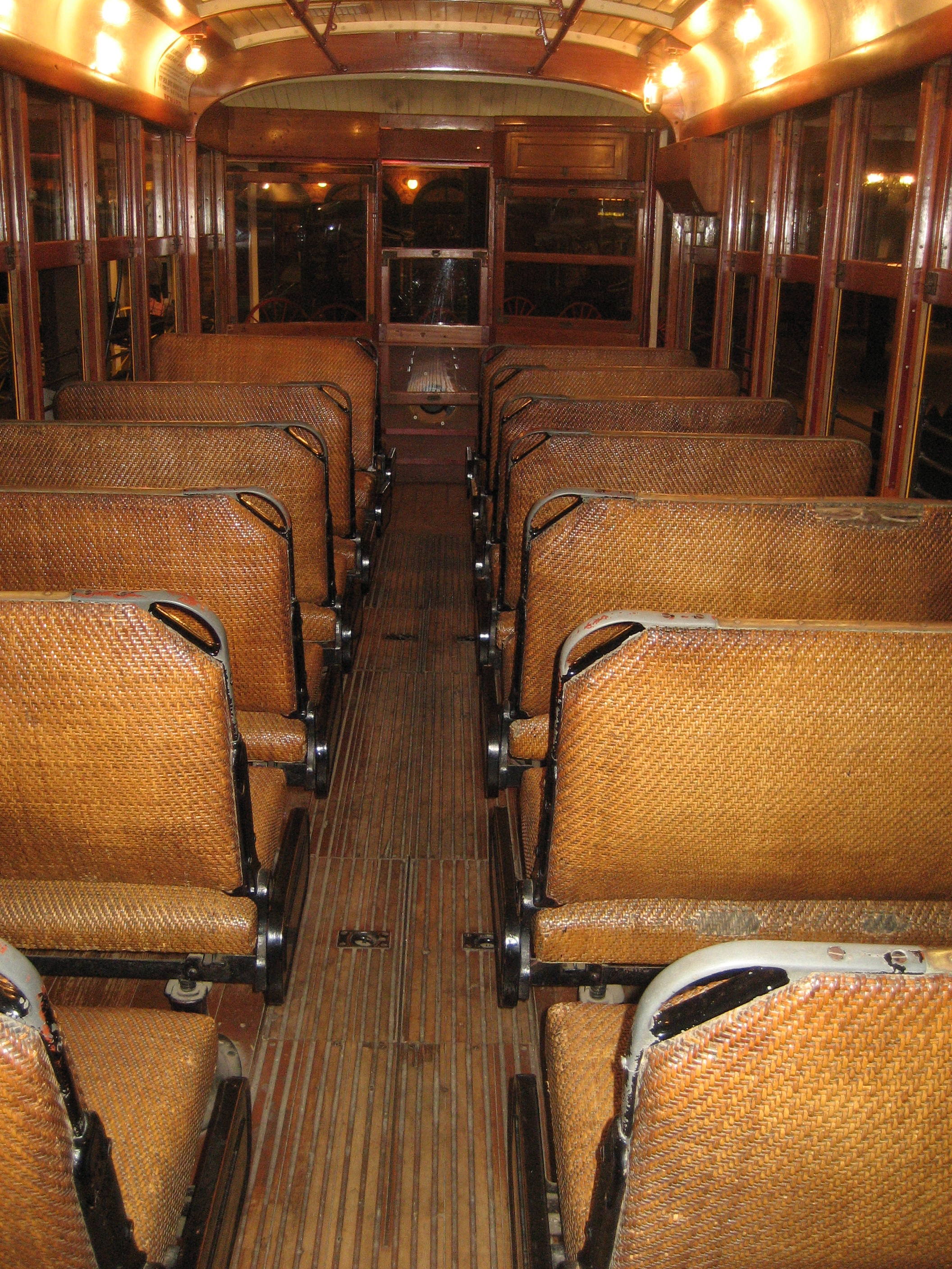 Museum of Commerce, Pensacola. 1920s streetcar on display. Interior view up aisle. Note the motorman's controls are missing.